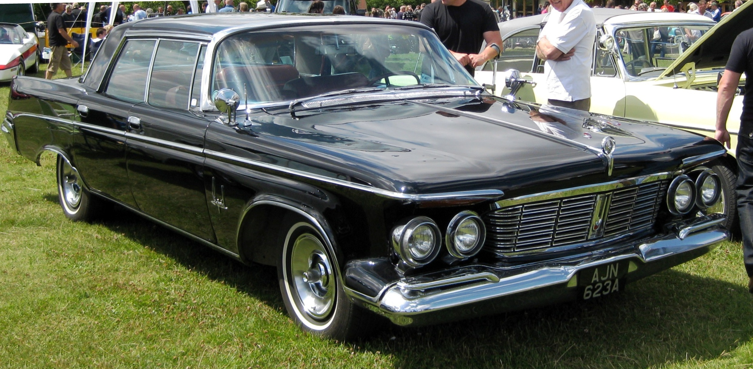 Imperial sedan (BIG)